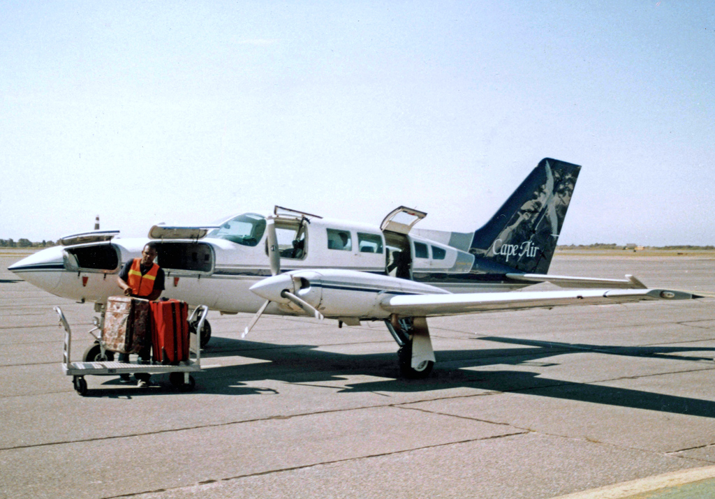 Cessna 402C N83PB of Cape Air at Nantucket Airport MA in 2005